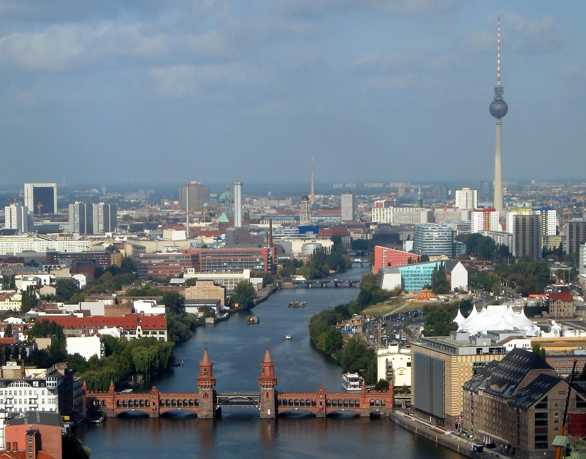 Oberbaum bridge over Spree river at the Osthafen of Berlin, Germany